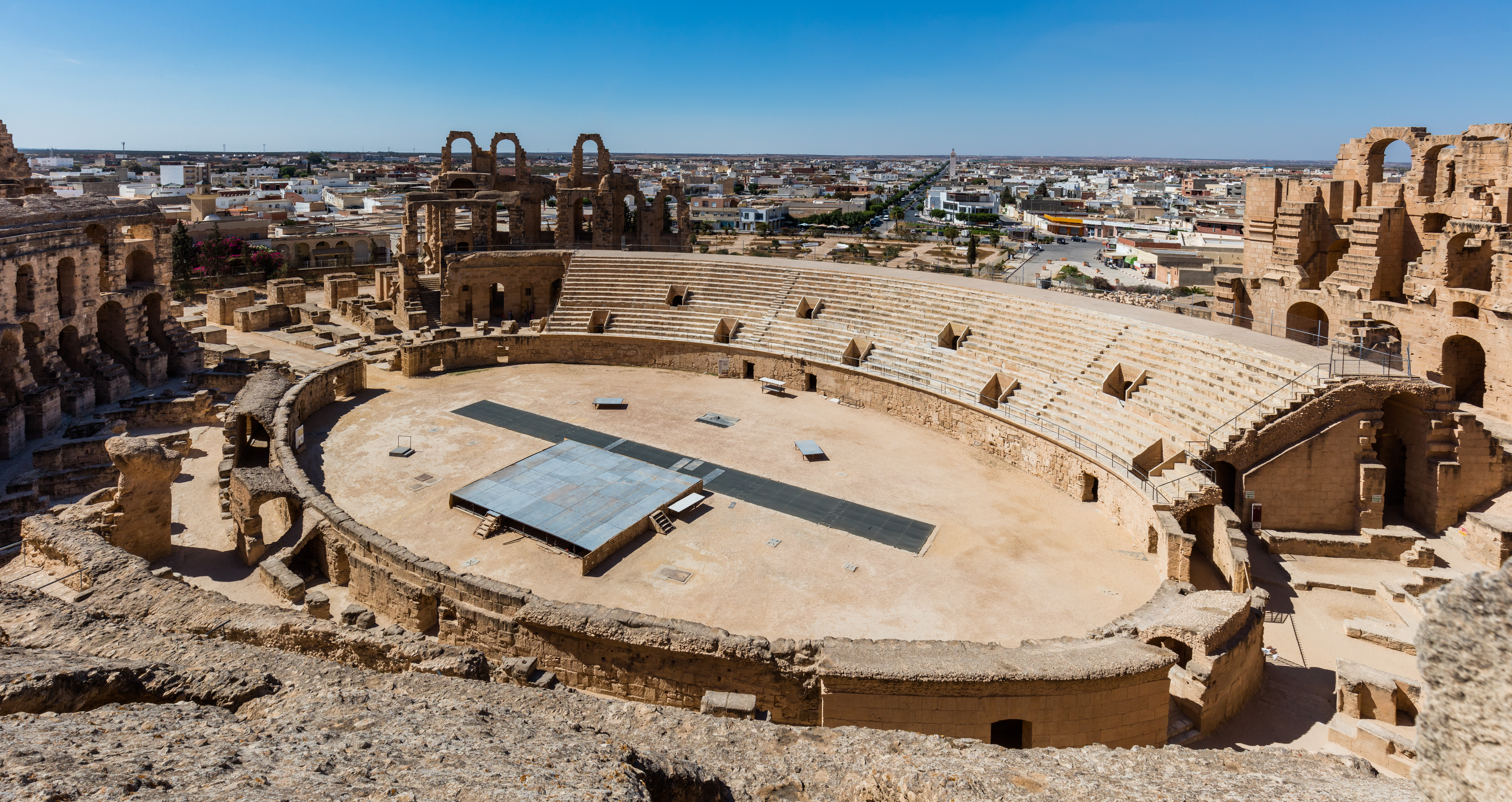 Amphitheatre of El Jem, Tunisia